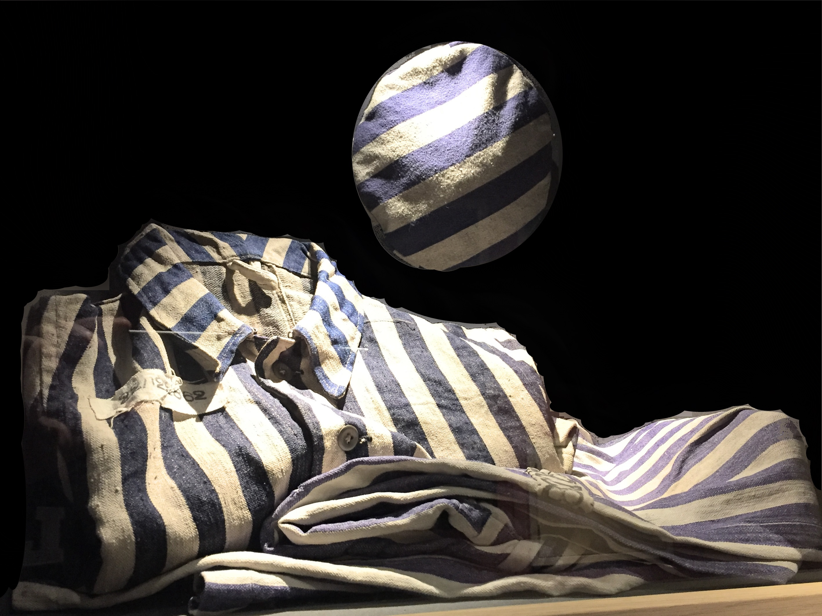 Uniform from Buchenwald concentration camp, belonging to Norwegian prisoner Samuel Steinmann. Now in the collections of Jewish Museum in Oslo.